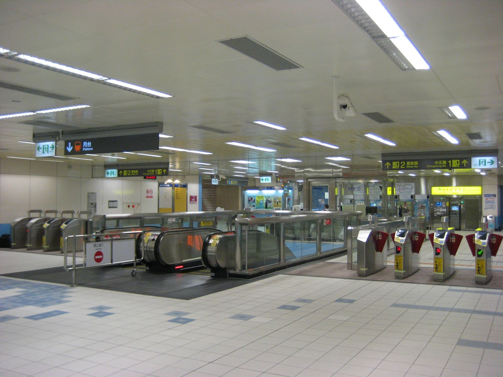 Danfeng Station Concourse